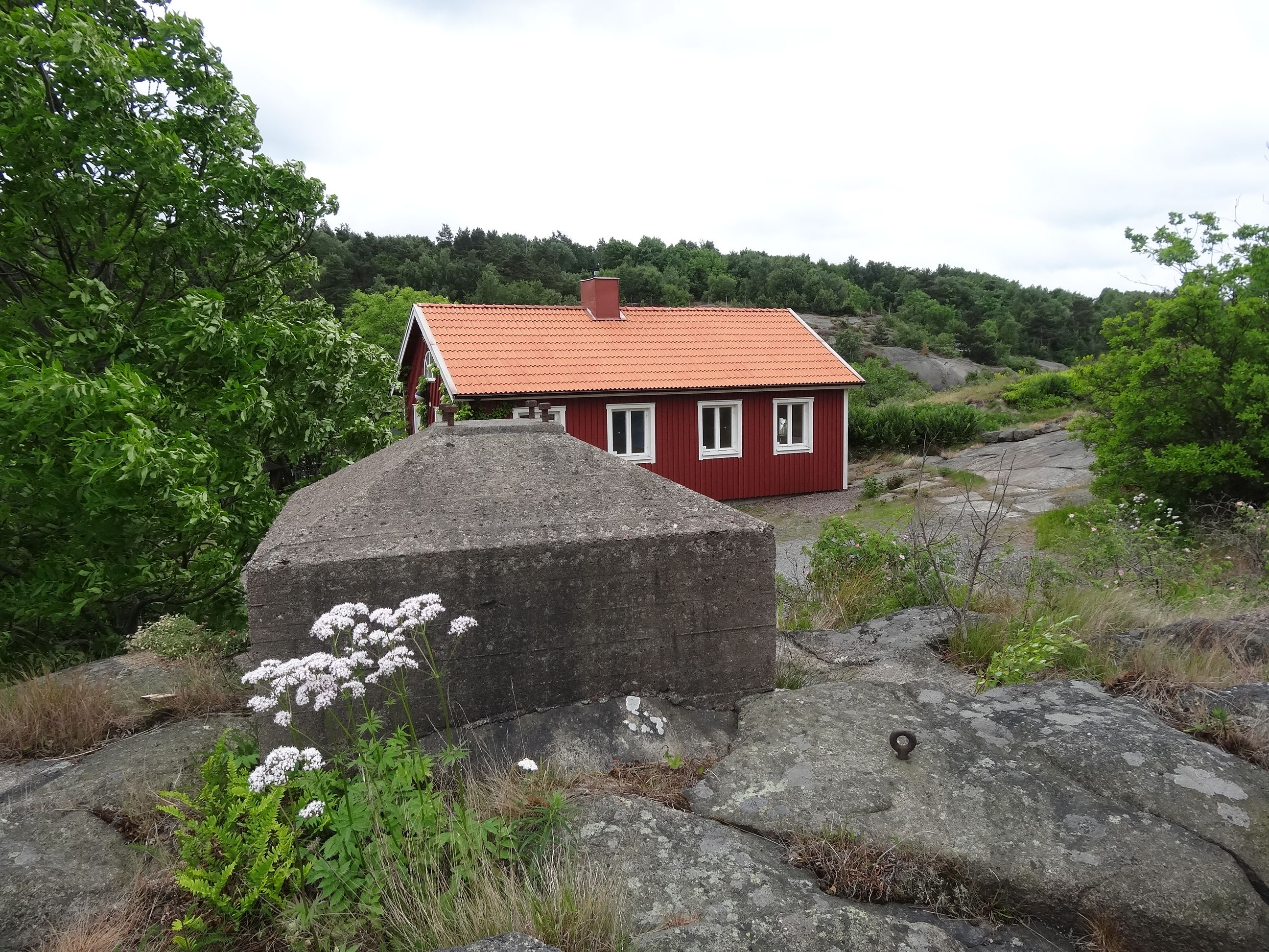 The original building for marine radiostation Älvsborg radio still remains at Nya Varvet, Göteborg, Sweden. From the antennas is only the foundations remaining.